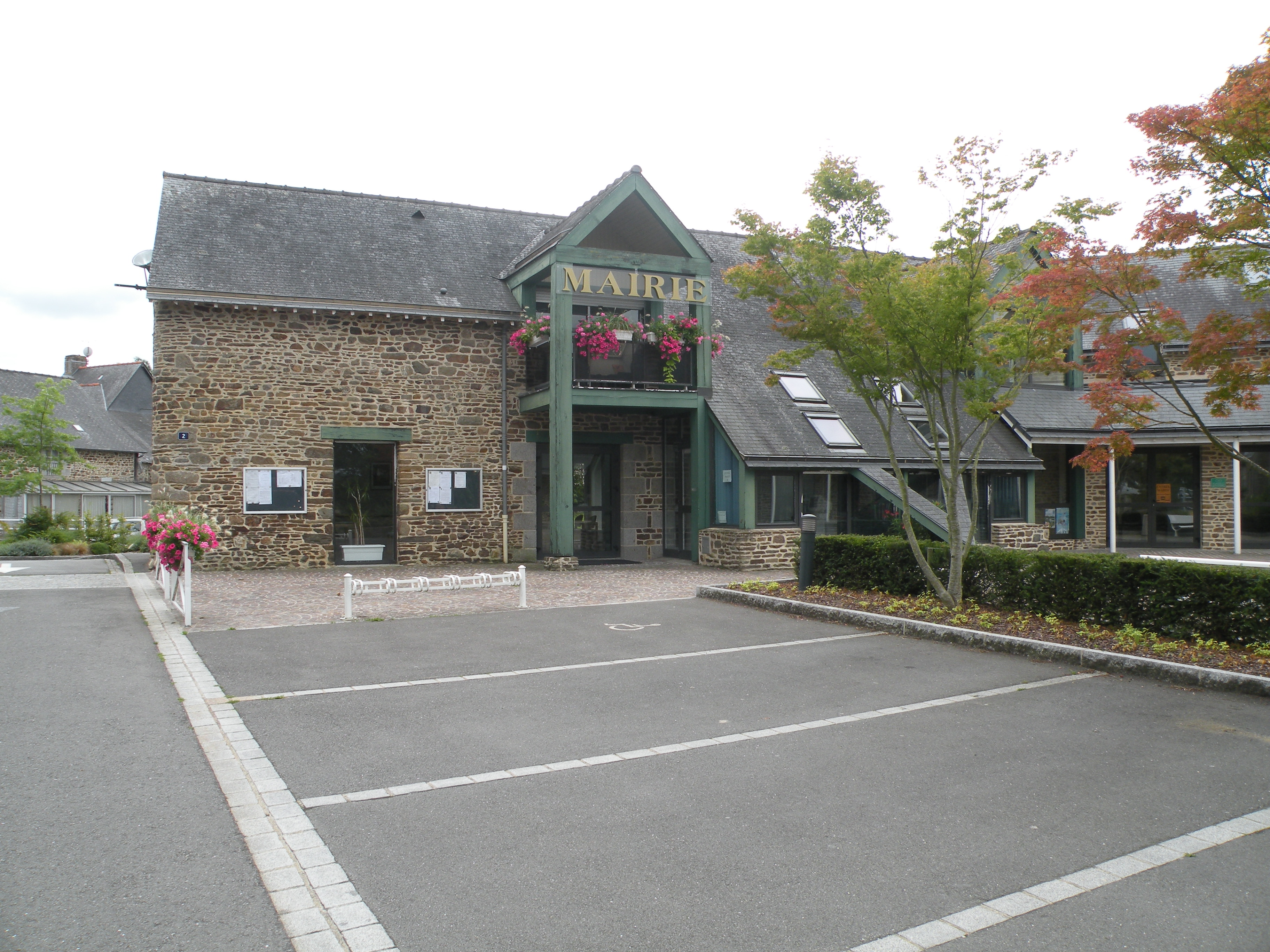 Town hall of Javené.